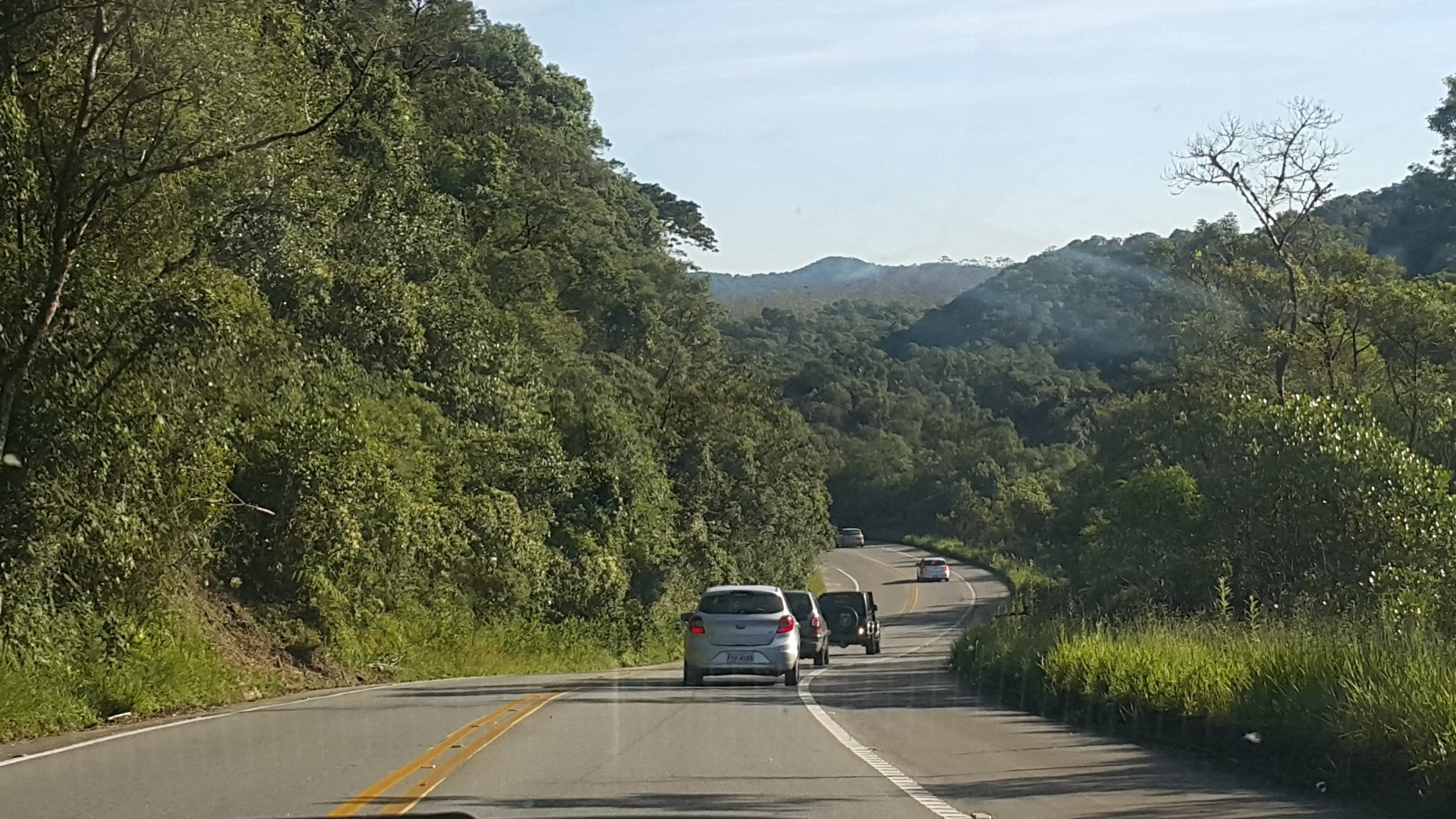 The Oswaldo Cruz Highway, in a stretch within the Serra do Mar State Park (Santa Virgínia core), Ubatuba, São Paulo, Brazil.